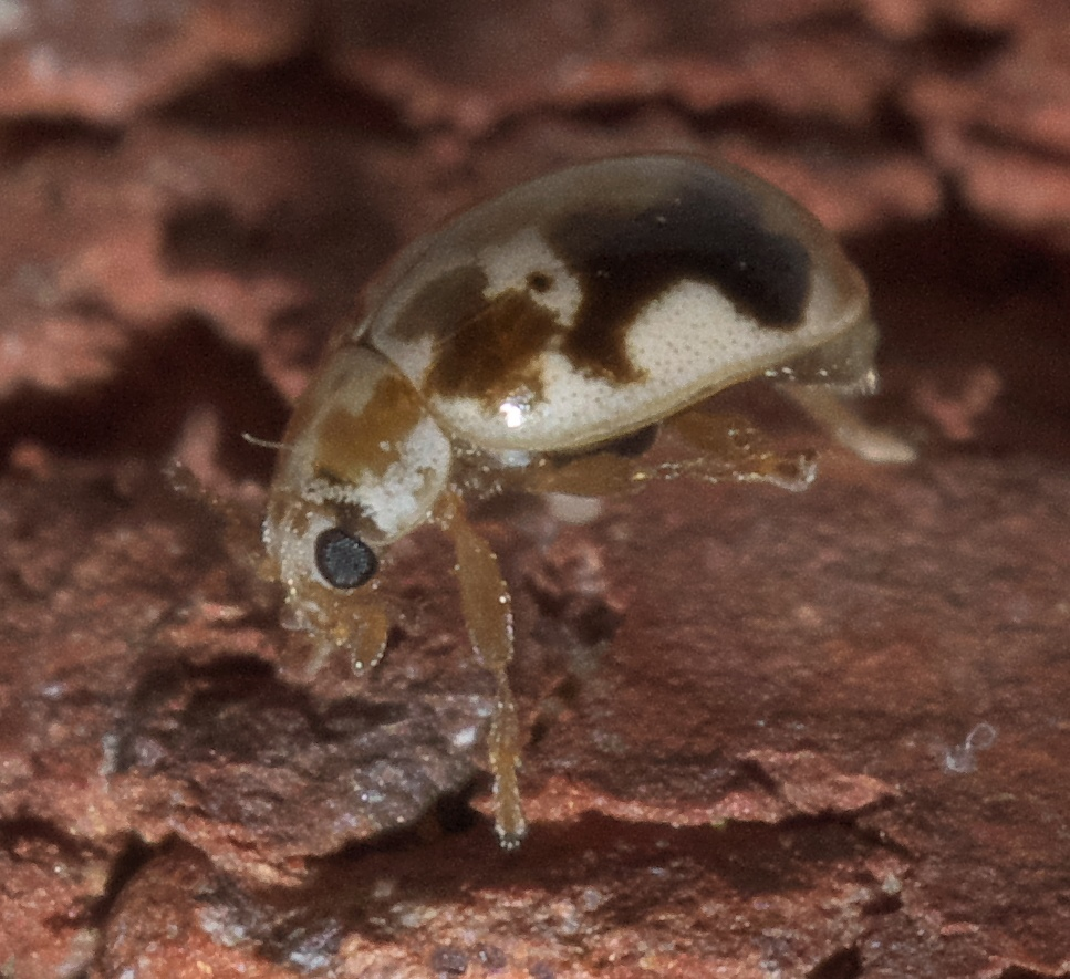 Psyllobora renifer, Kidney-spotted Psyllobora, Size: about 2.2 mm, ID Confidence: 98